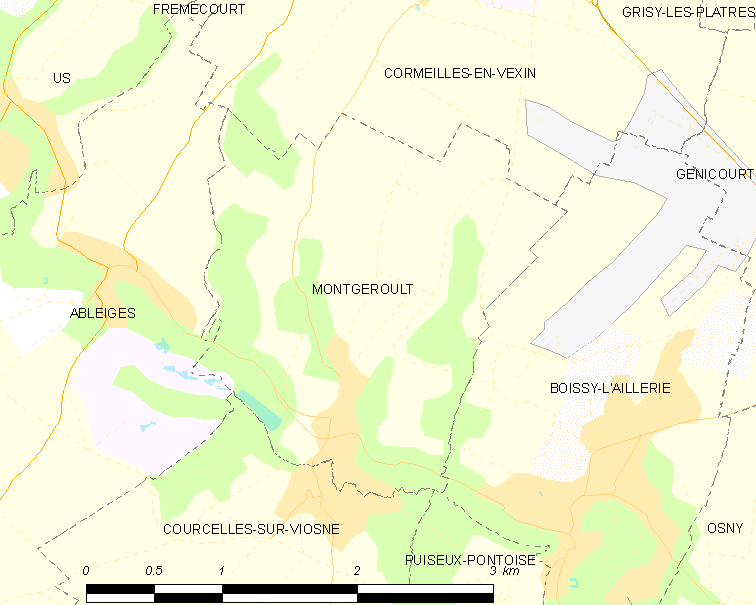 Map of French municipality Montgeroult